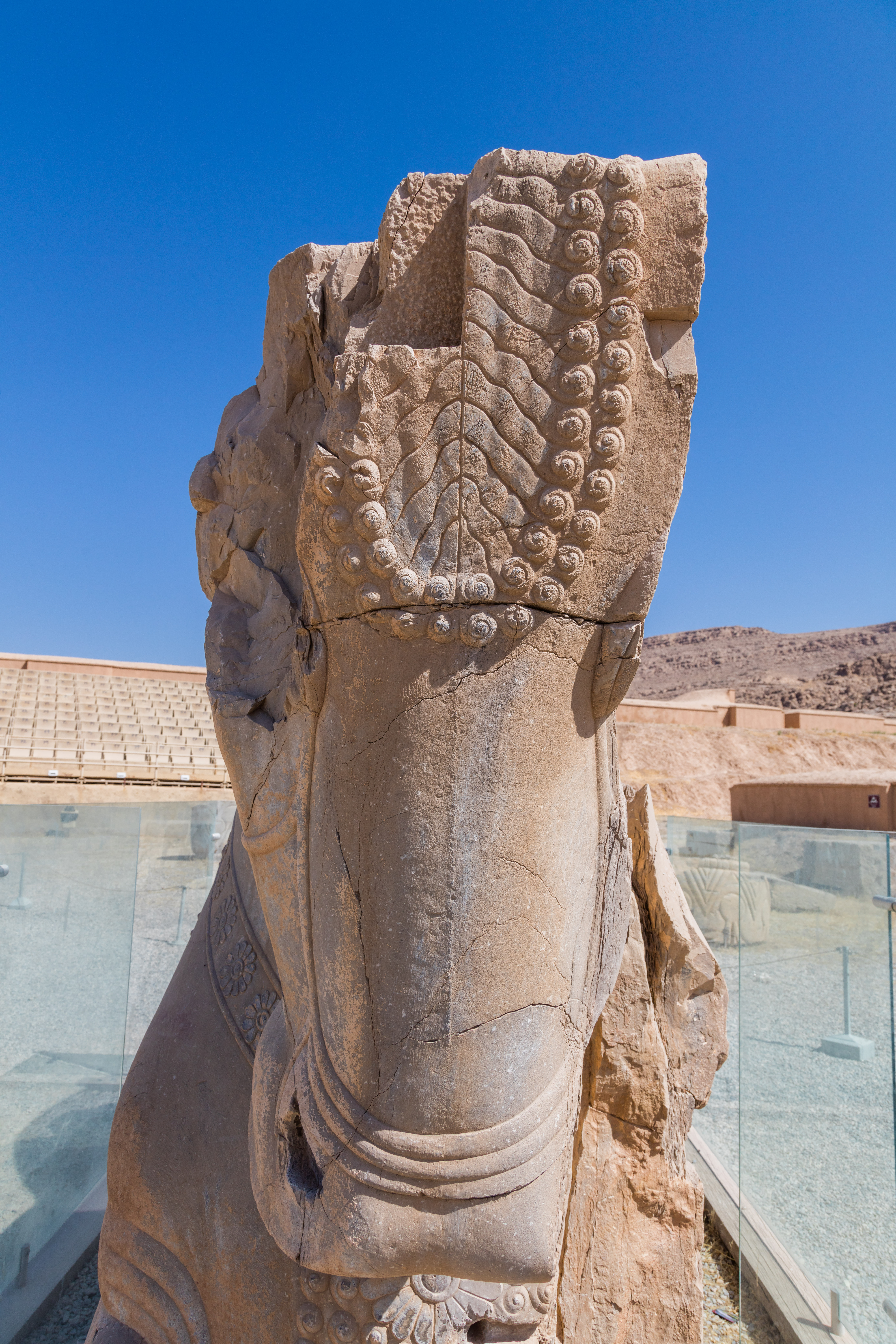 Persepolis, Iran